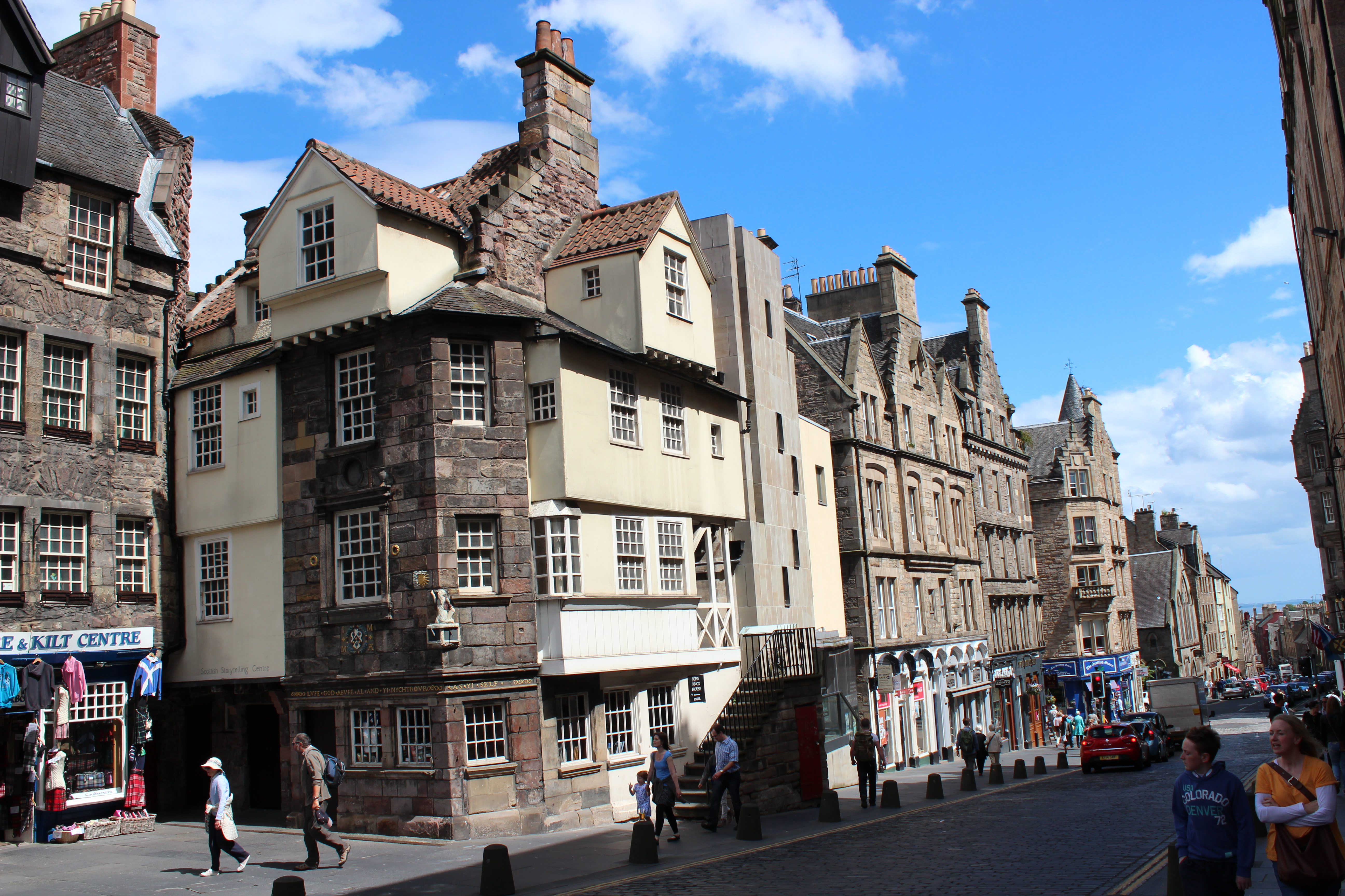 On the royal mile in Edinburgh, Scotland